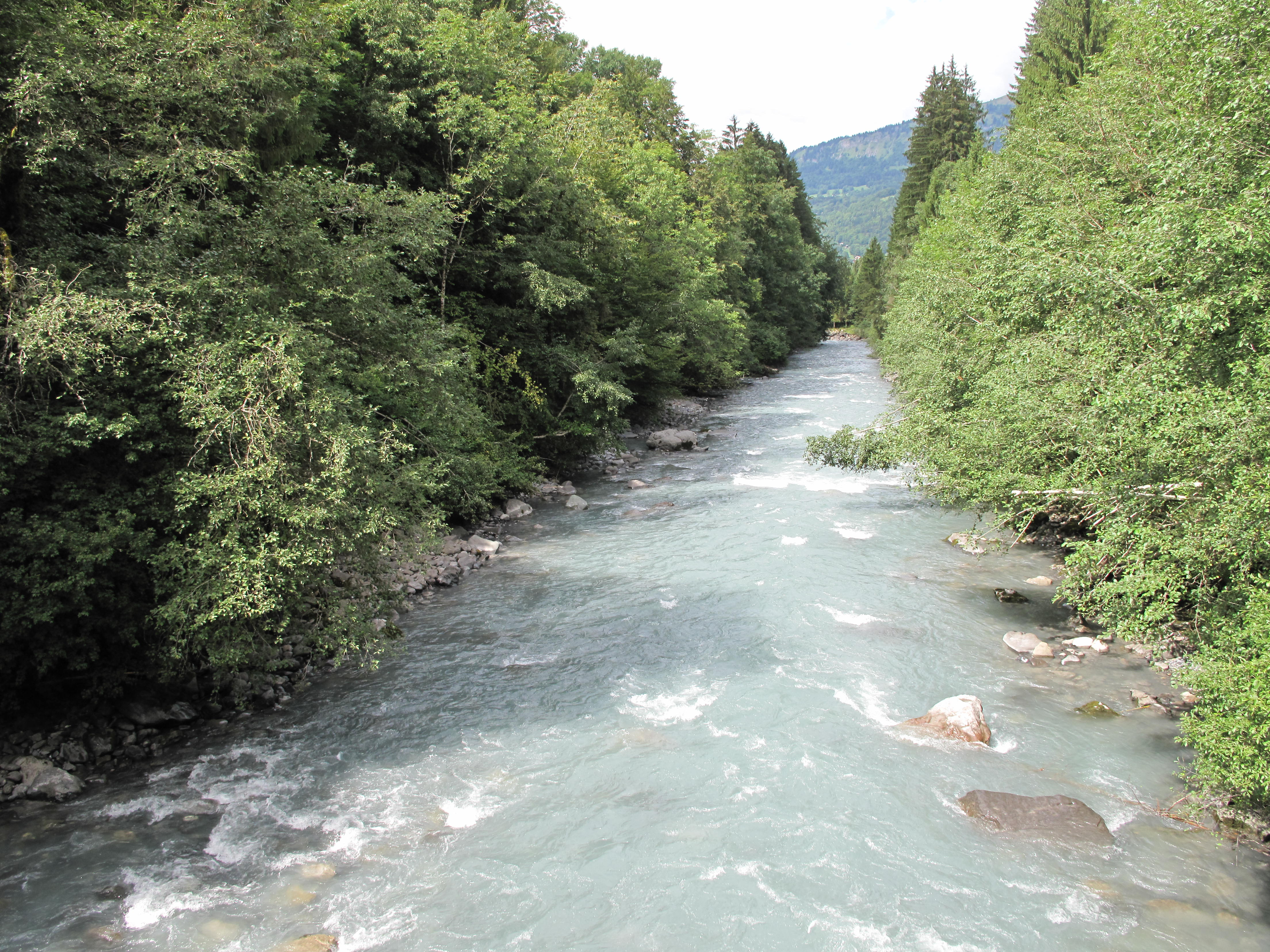 The river of Giffre river upstream Samoëns (Haute-Savoie, France) from the pont de Revé.